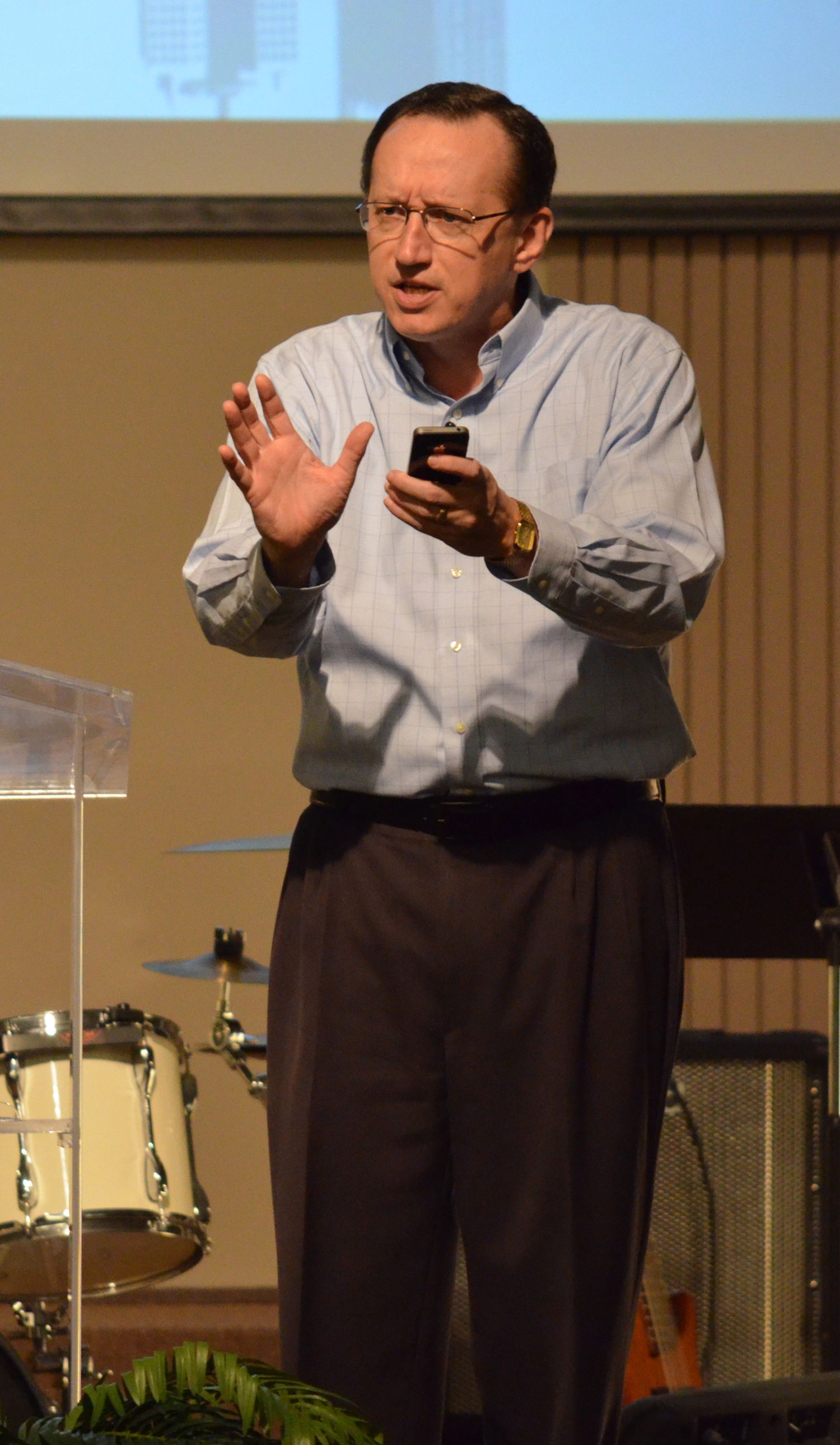 Dr. Jeff Iorg, President of Golden Gate Baptist Theological Seminary, lecturing at the 52nd annual Missions Conference in February 2013.